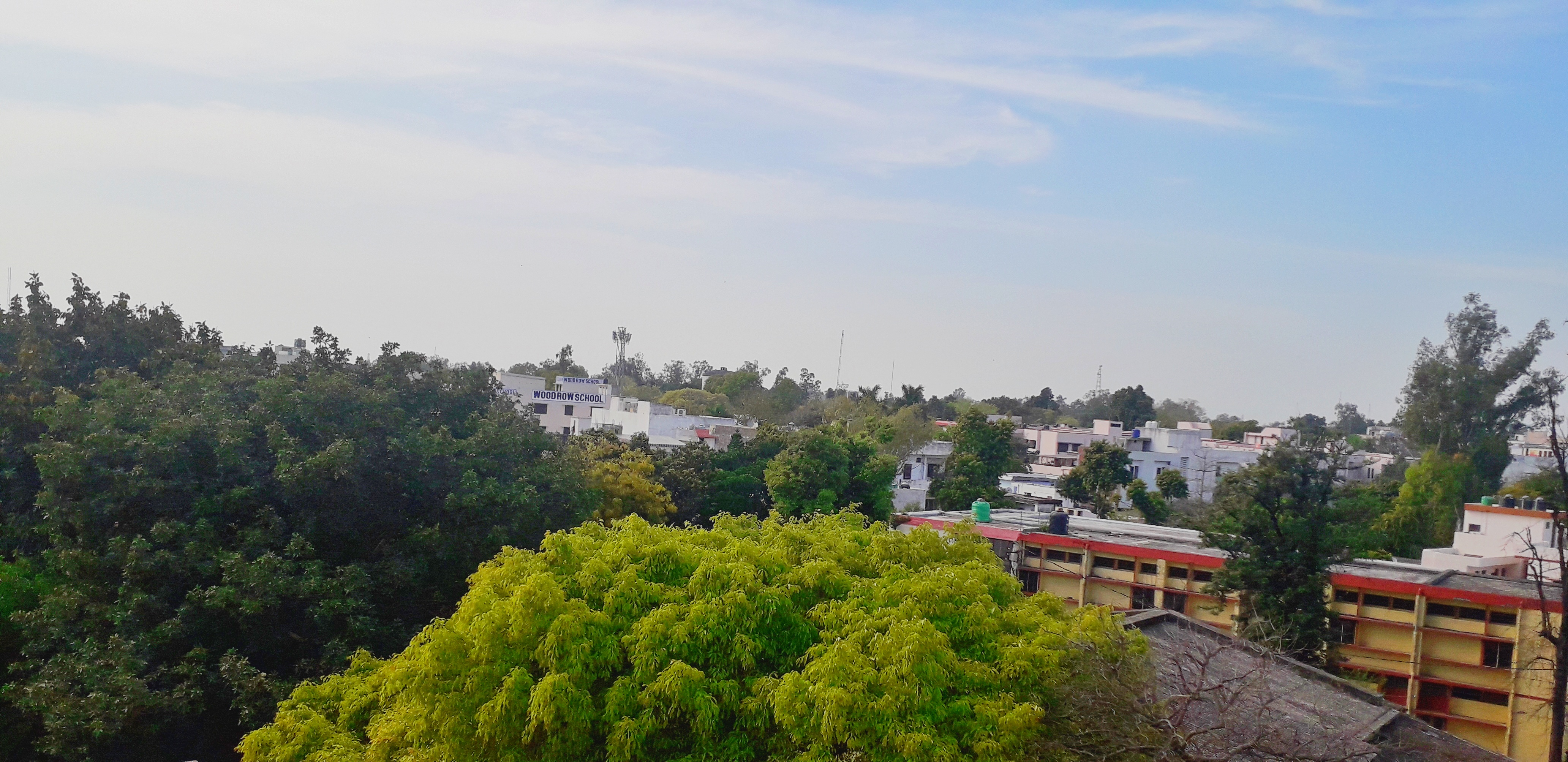 civil lines bareilly